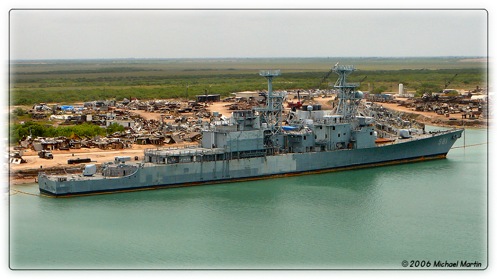 The USS Hancock Sits in the Port of Brownsville Ship Channel awaiting recycling.